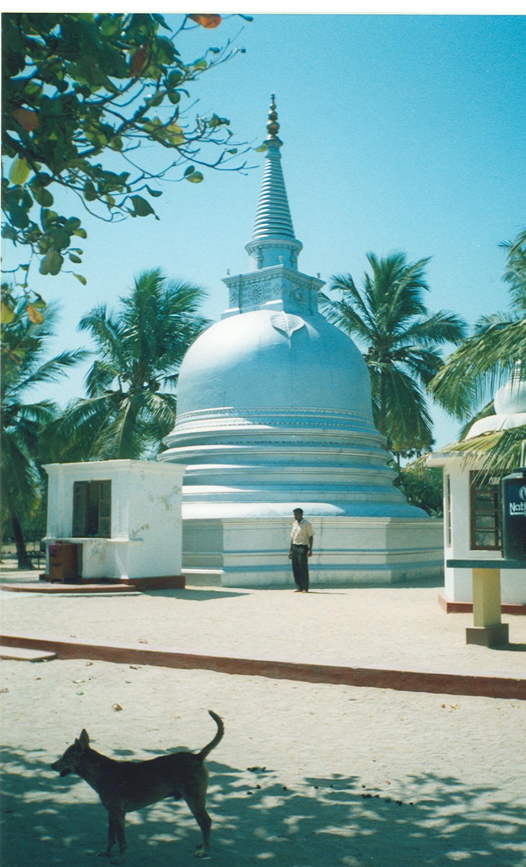 Screen shot Nainathivu Naha Vihara